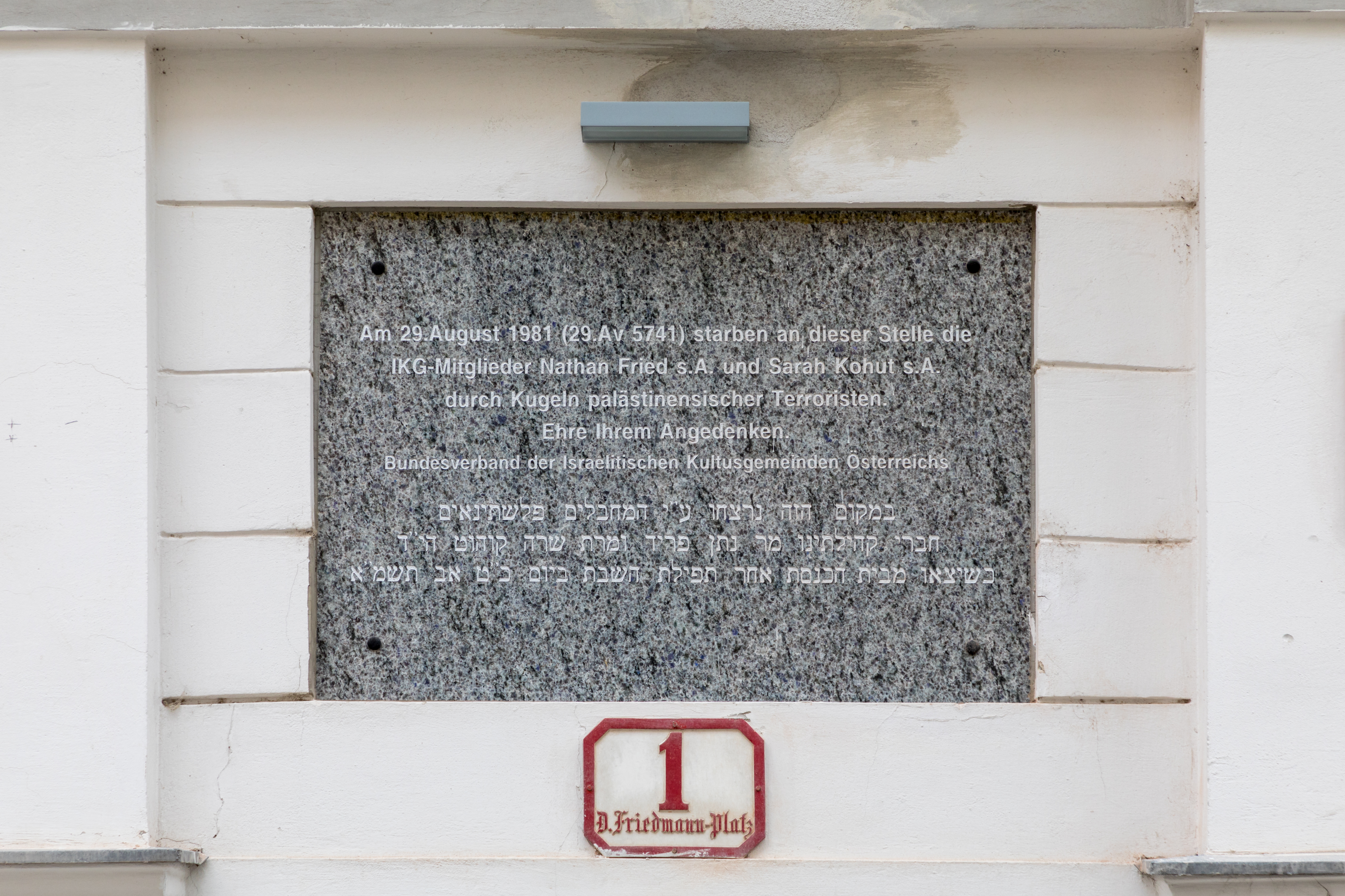 Gedenktafel für Terroropfer, Vienna, Austria Sculpture TitleGedenktafelArtistUnknown artistDateUnknown dateUnknown date